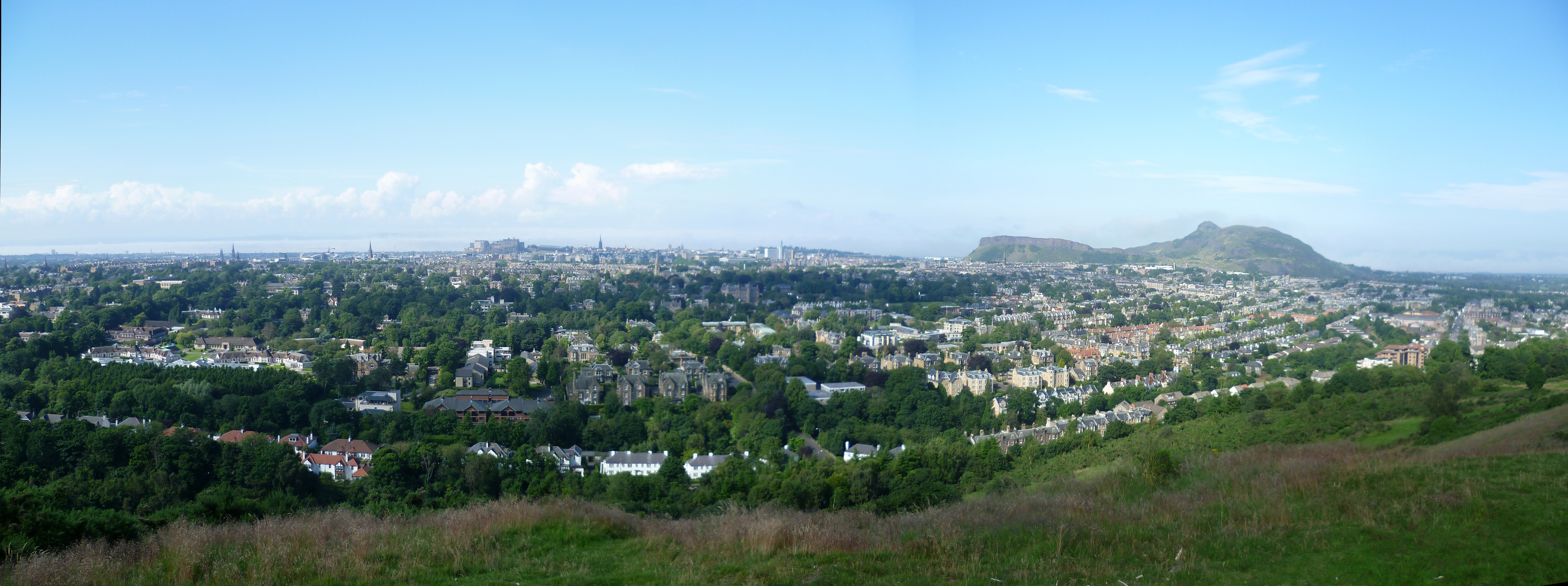 View of Edinburgh from Blackford Hill (composite)